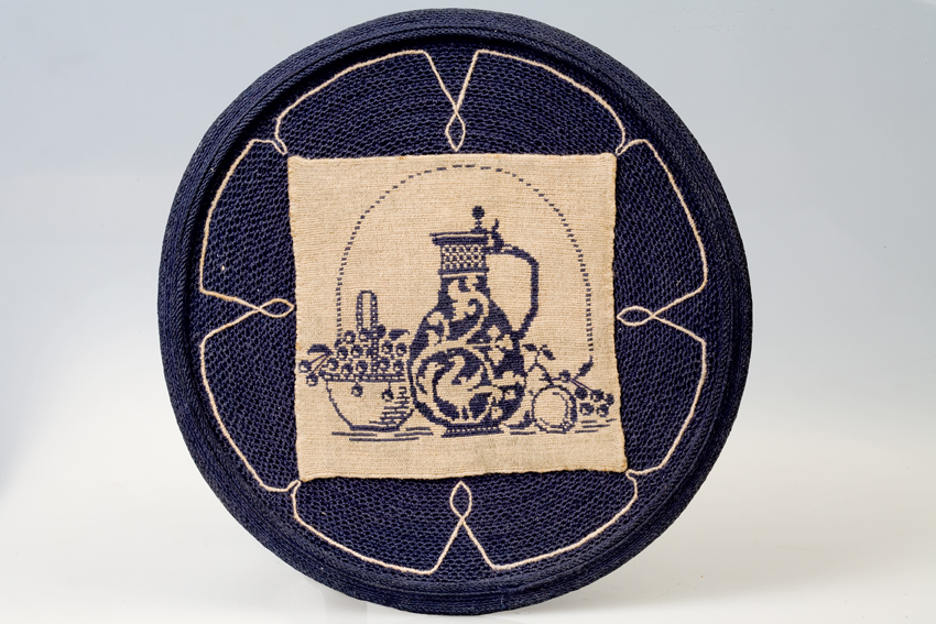 Работа выполнена в технике «Кавандоли», крючок.